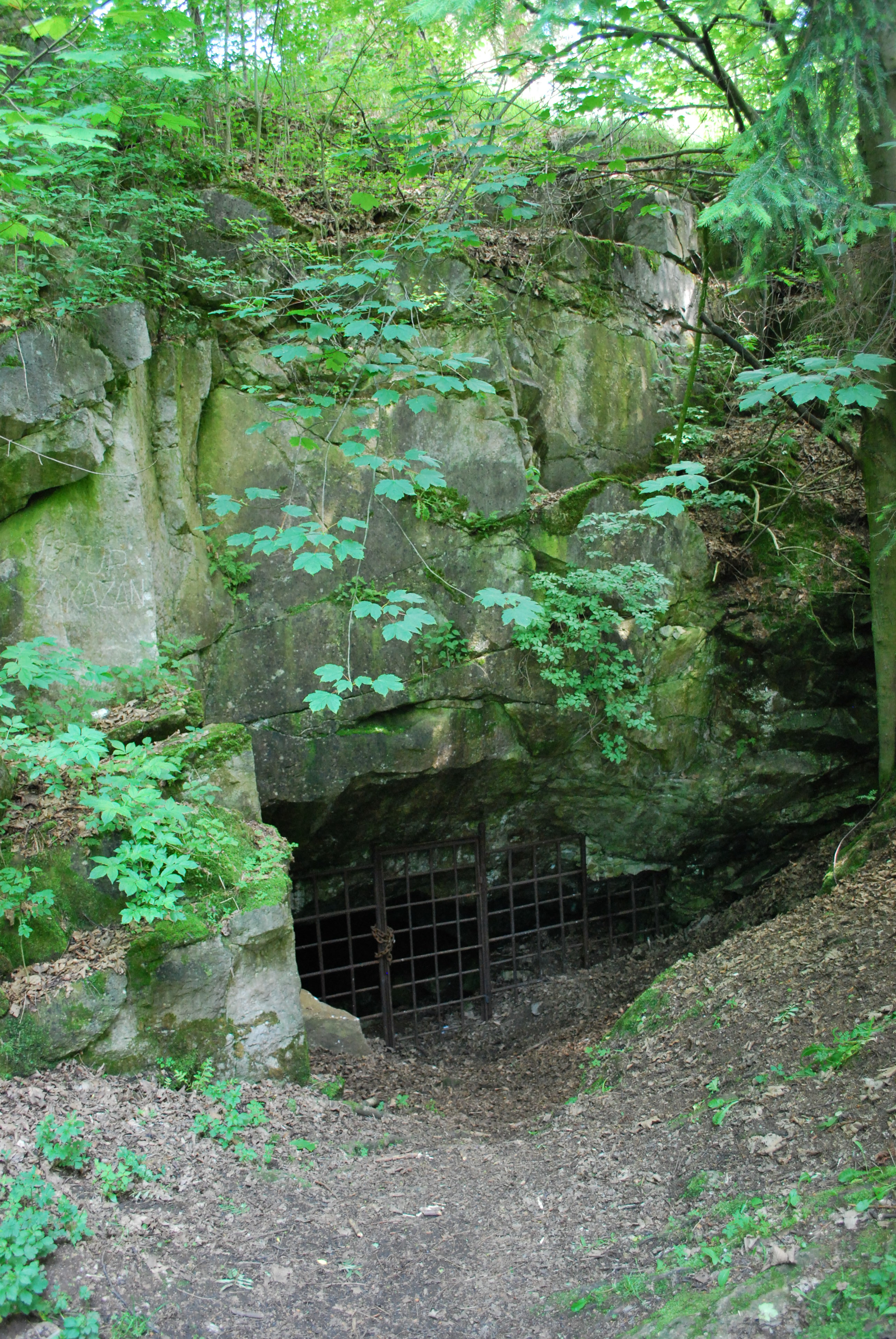 Strašín cave near Strašín village in Klatovy District, Czech republic. This photograph was taken within the scope of the 'Czech Municipalities Photographs' grant.